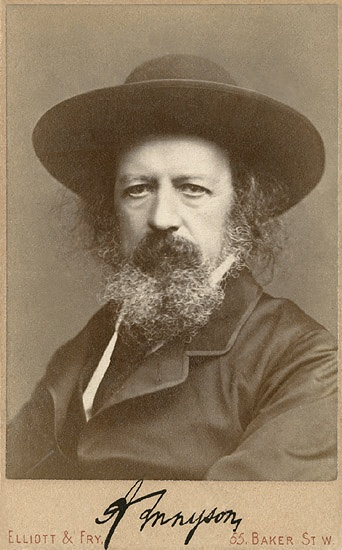 Alfred Lord Tennyson, autographed portrait by Elliott & Fry